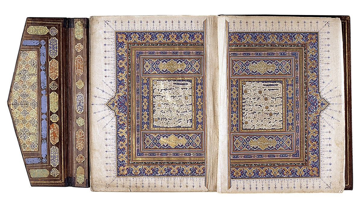 This Splendour Coran is part of the collection of the Museum für Kunst und Gewerbe Hamburg. It was produced in Tabriz and contains a Tughra of the Ottoman Sultan Ahmed III. The museum acquired it in 1893 by Kelekian Art Dealers in Paris.